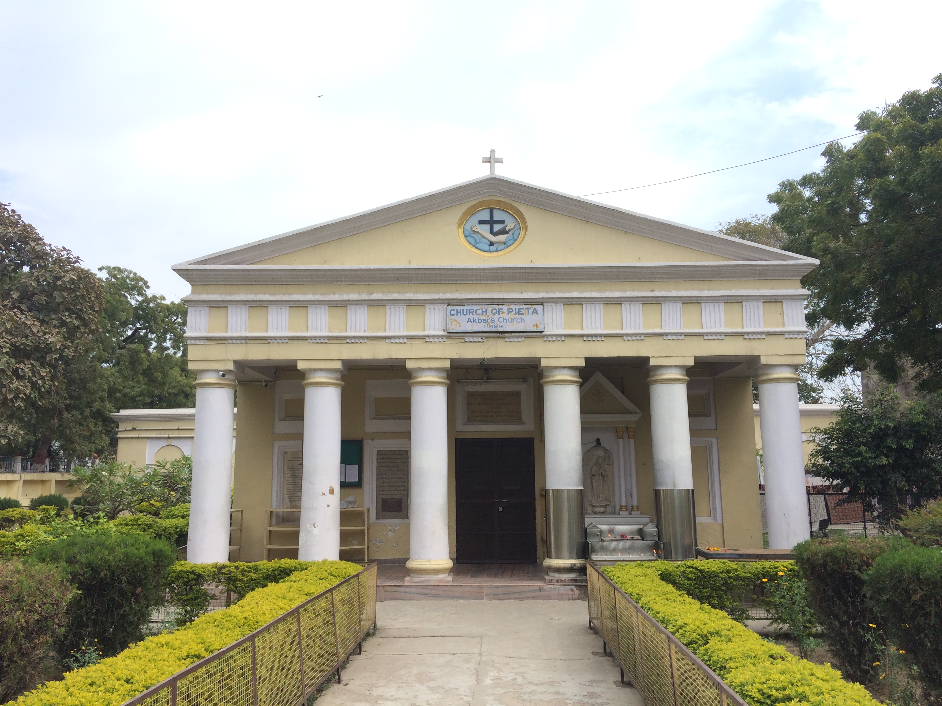 Akbar got this church constructed with the help of Jesuit missionaries in Agra, UP